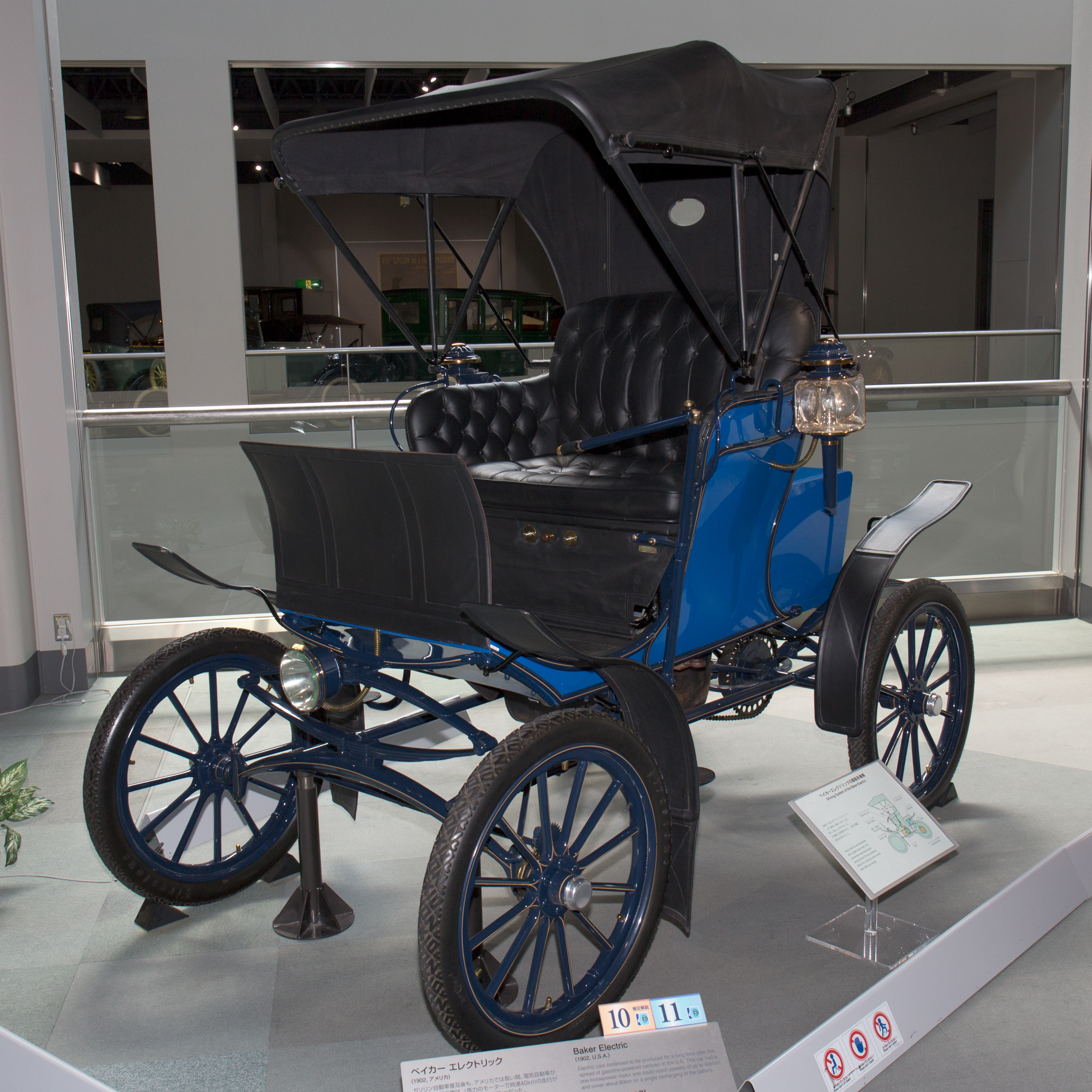 1902 Baker Electric